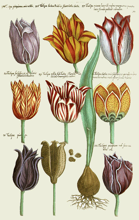 Emanuel Sweerts: Florilegium. 1647 - Plate 10